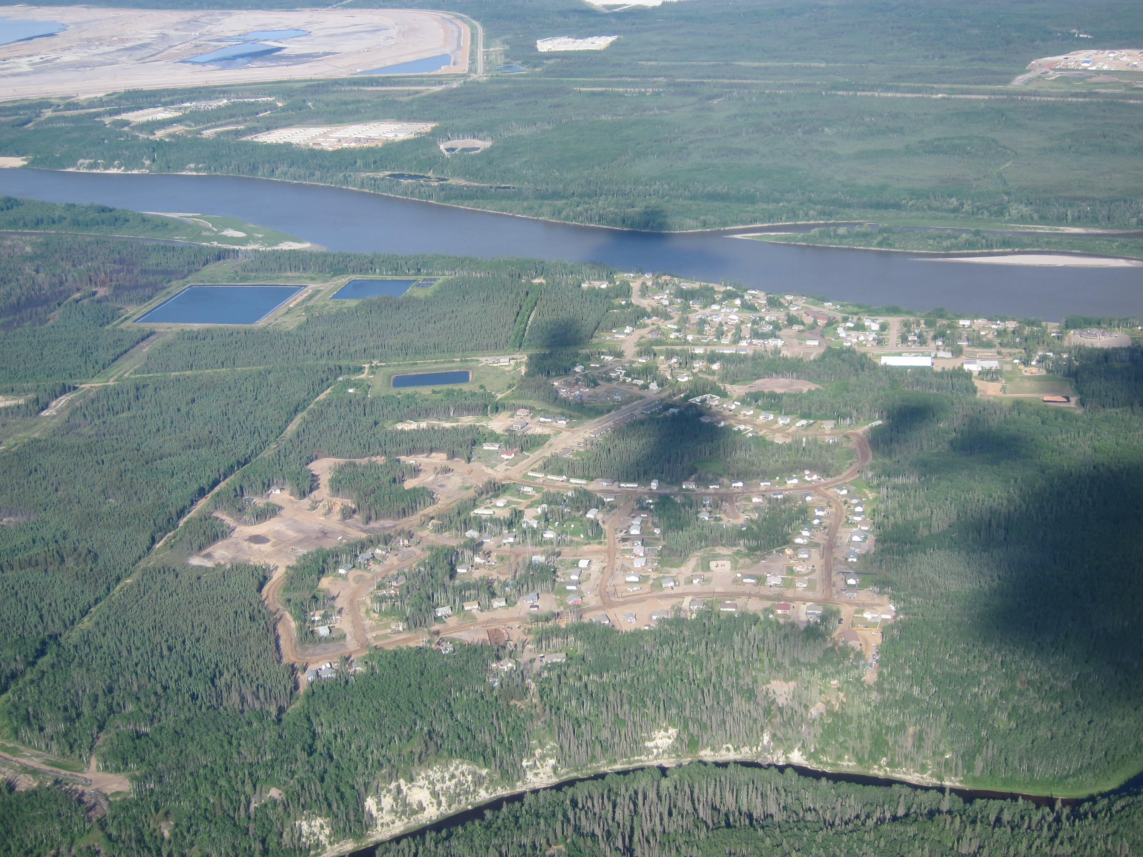 Fort McKay, Alberta from the air. Athabasca River in top of image